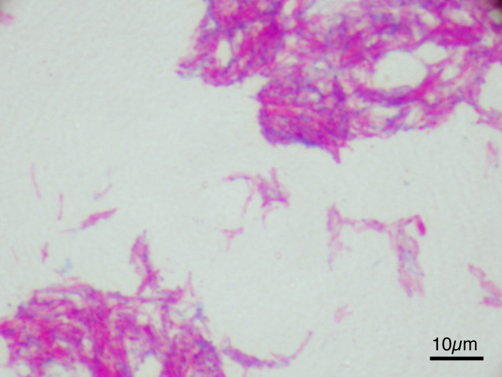 microscopic image of the bacille Calmette-Guérin (BCG, Japan strain). Ziehl Neelsen staining. Magnification: 1,000